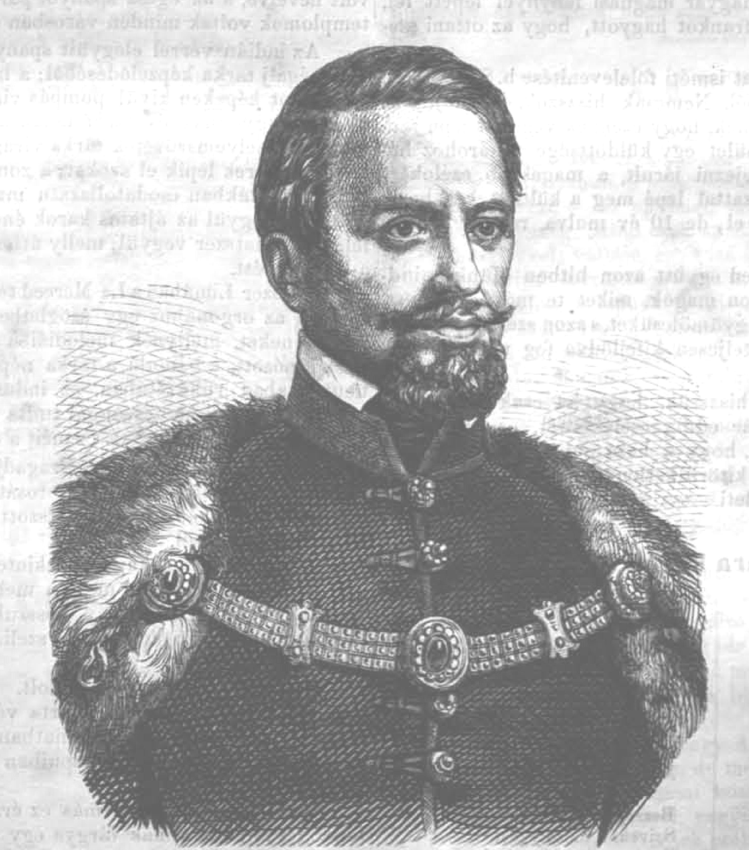 Simon Sinas